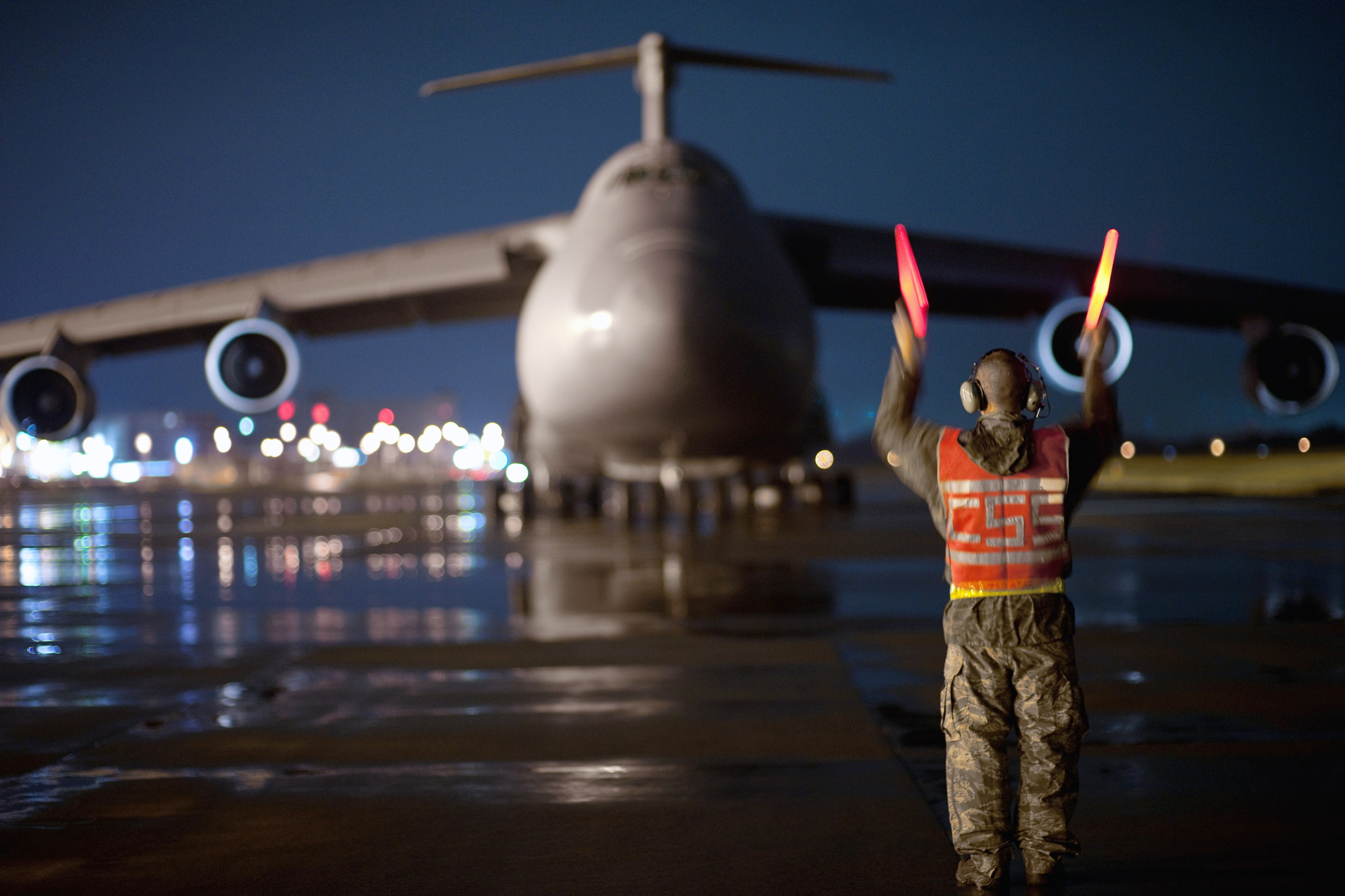 Staff Sgt. Dustin McComas, 730th Air Mobility Squadron, marshals a C-5 Galaxy aircraft after it lands at Yokota Air Base, Japan, Sept. 15, 2010. As the airlift hub of the western Pacific, Yokota Airmen work 24/7 operations to keep inbound and outbound aircraft running.